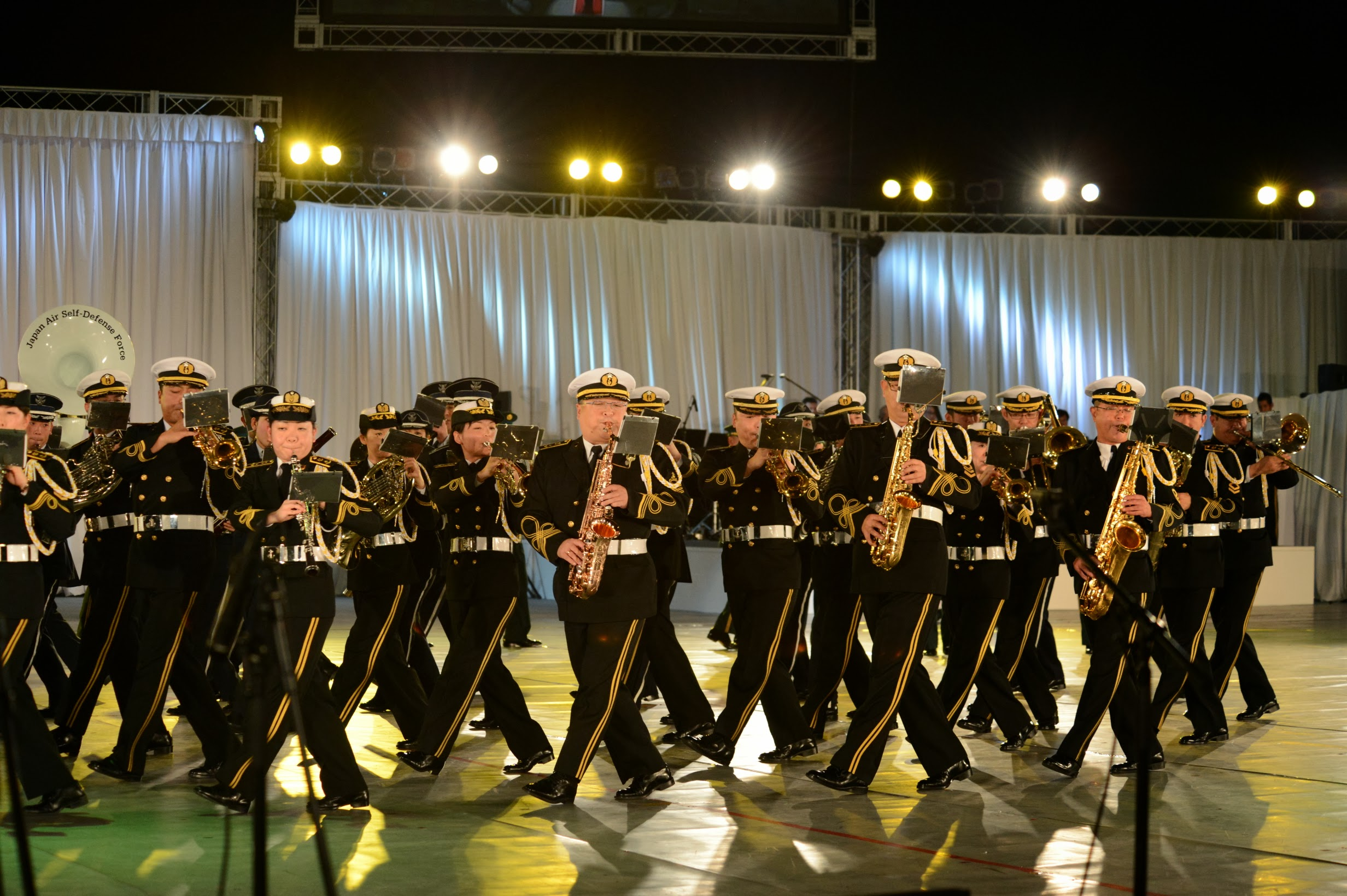 Title NOH_4141.JPG Album 平成25年度自衛隊音楽まつり Photographs by the Japan Ground Self-Defense Force